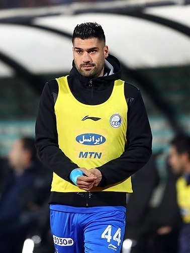 Meysam Teymouri